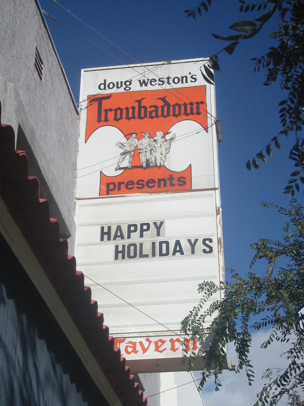 Detail of Doug Westons Troubadour nightclub sign in West Hollywood, CA